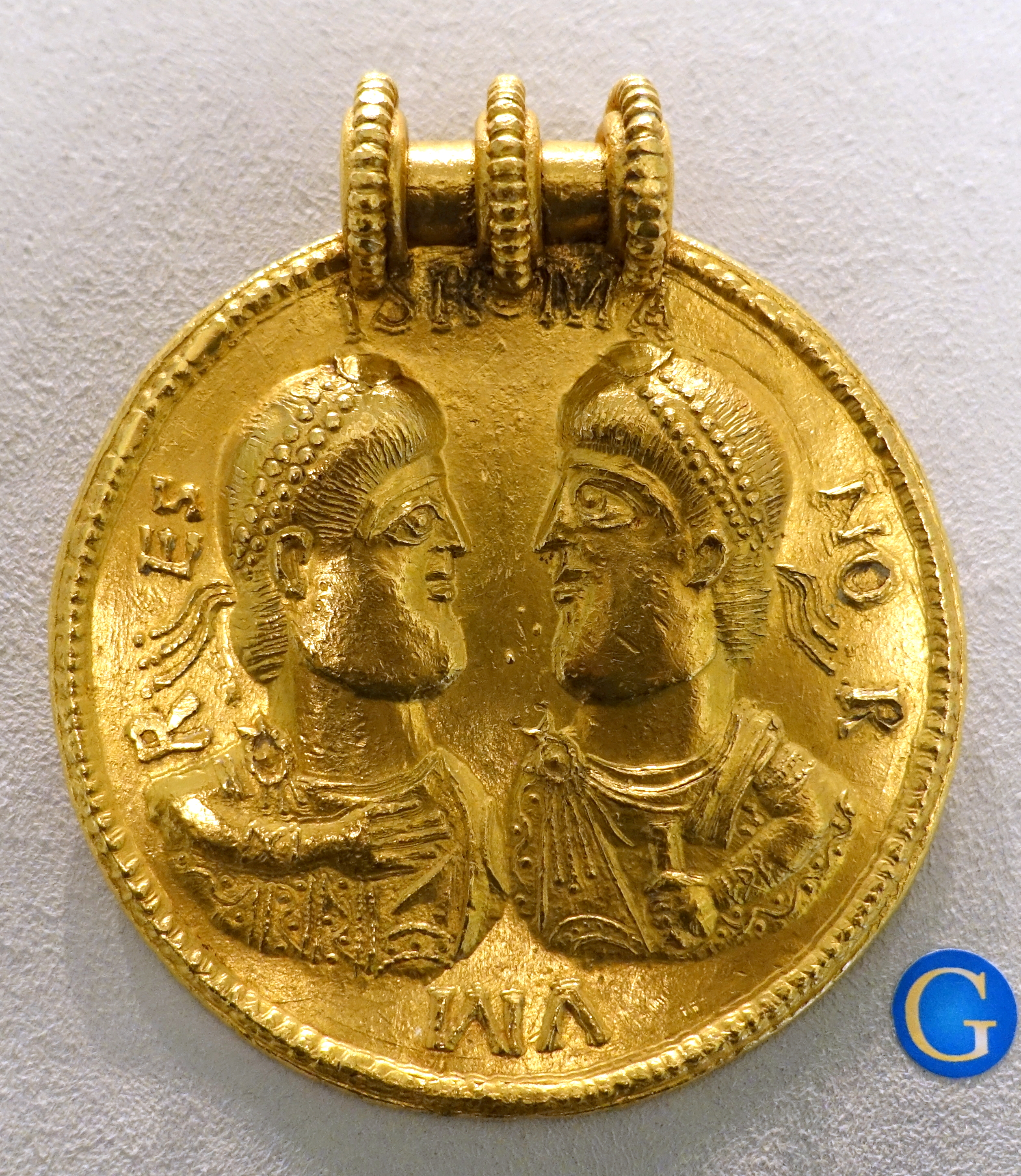 Exhibit in the Bode-Museum, Berlin, Germany. This work is in the public domain because the artist died more than 100 years ago.